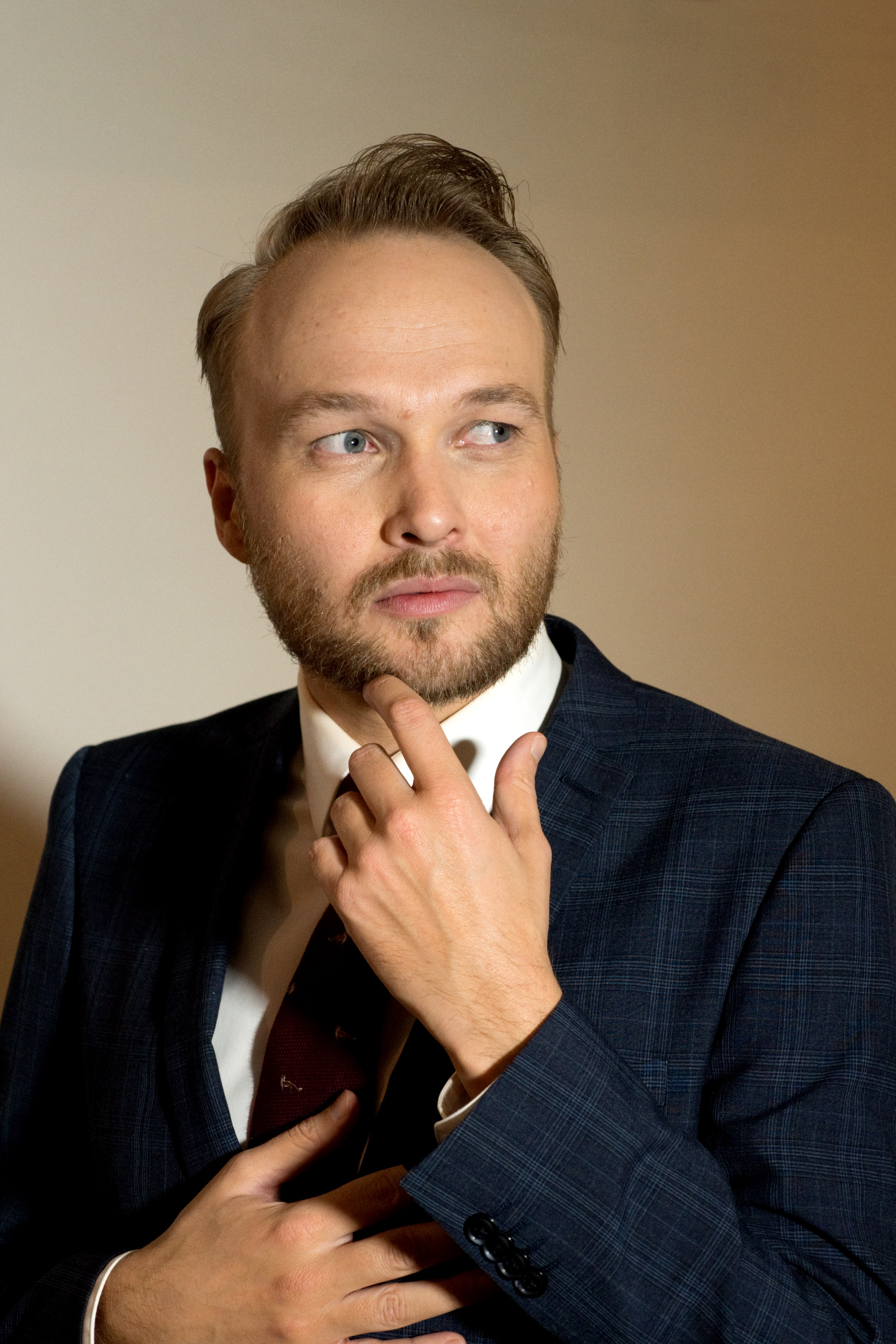 Cabaretier, schrijver en kritisch denker Arjen Lubach, 11 september 2016.